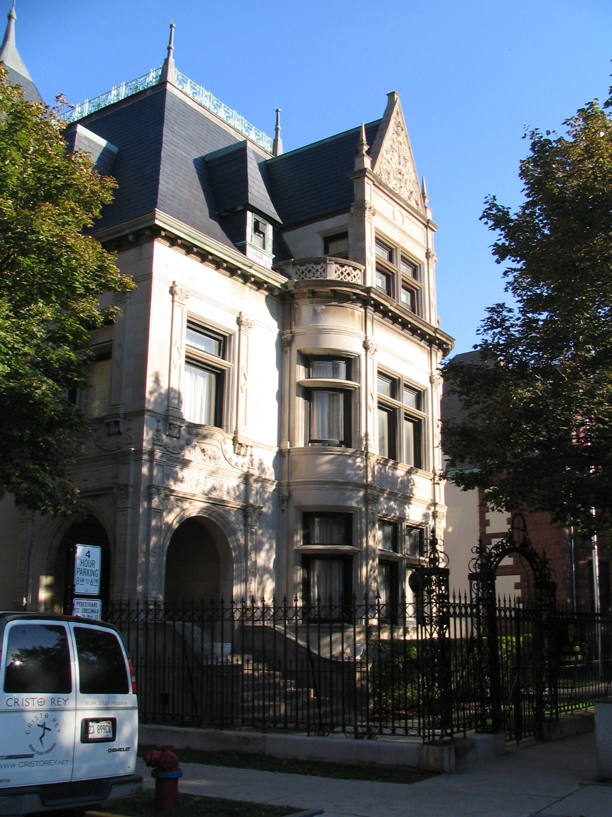 Front facade of the William W. Kimball House, 1801 S. Prairie Ave., Chicago. Solon Spencer Beman, architect 1890.